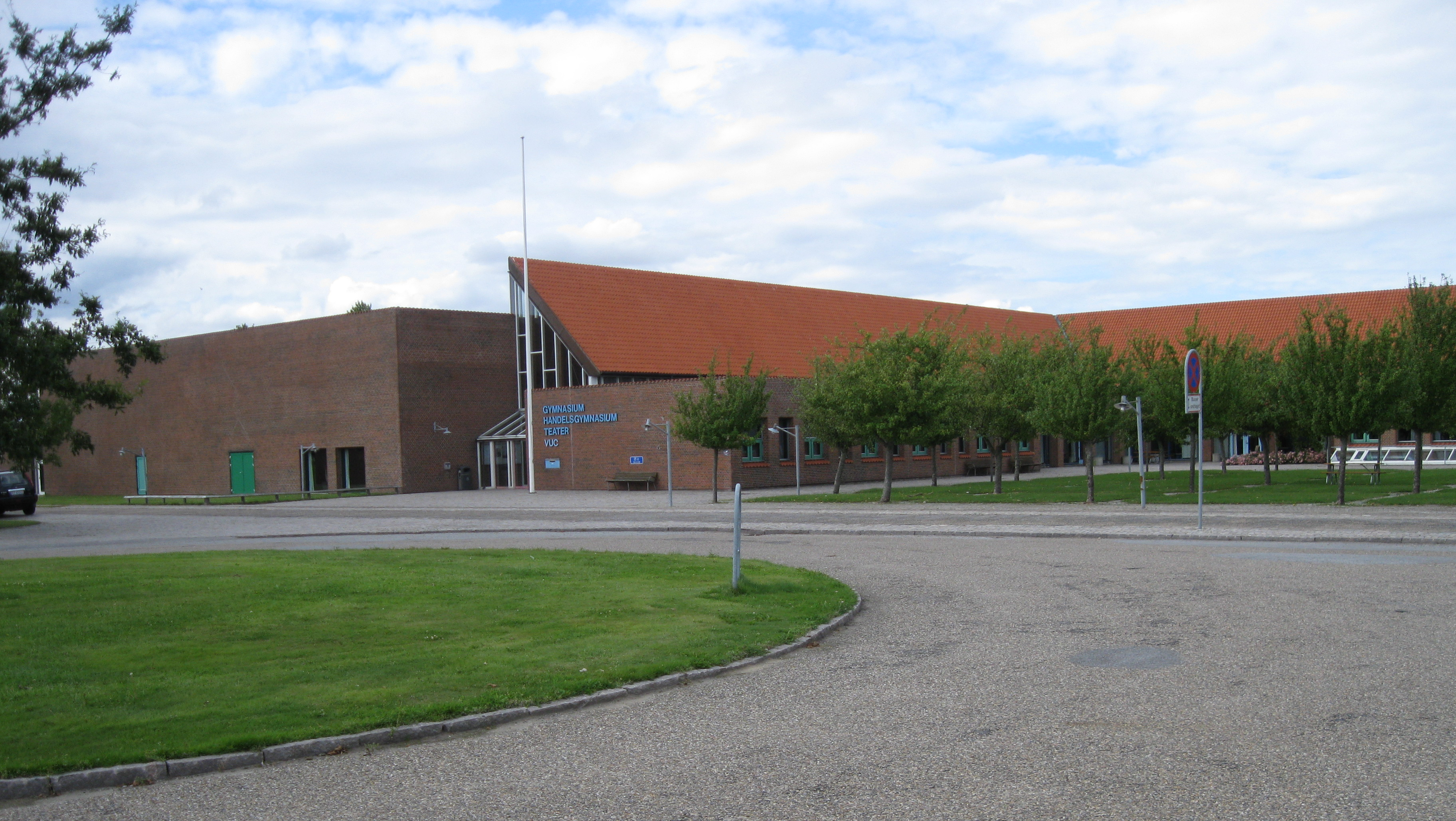 Morsø high school, Nykøbing Mors, Denmark